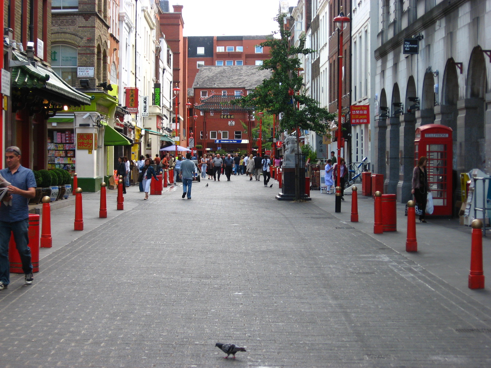 Chinatown, Soho, London